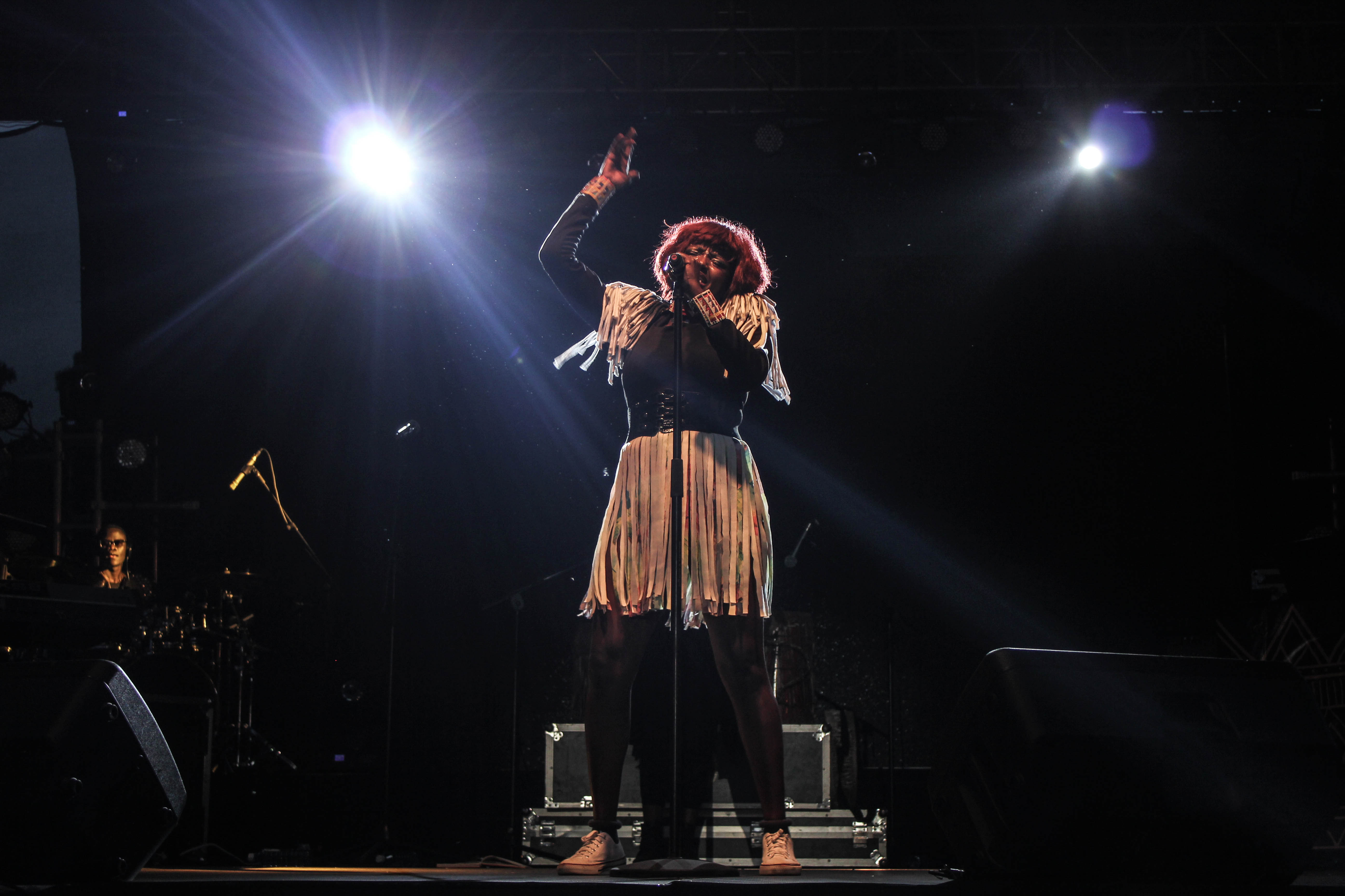 Muthoni the Drummer Queen performing at Blankets and Wine in Nairobi This is an image from Kenya